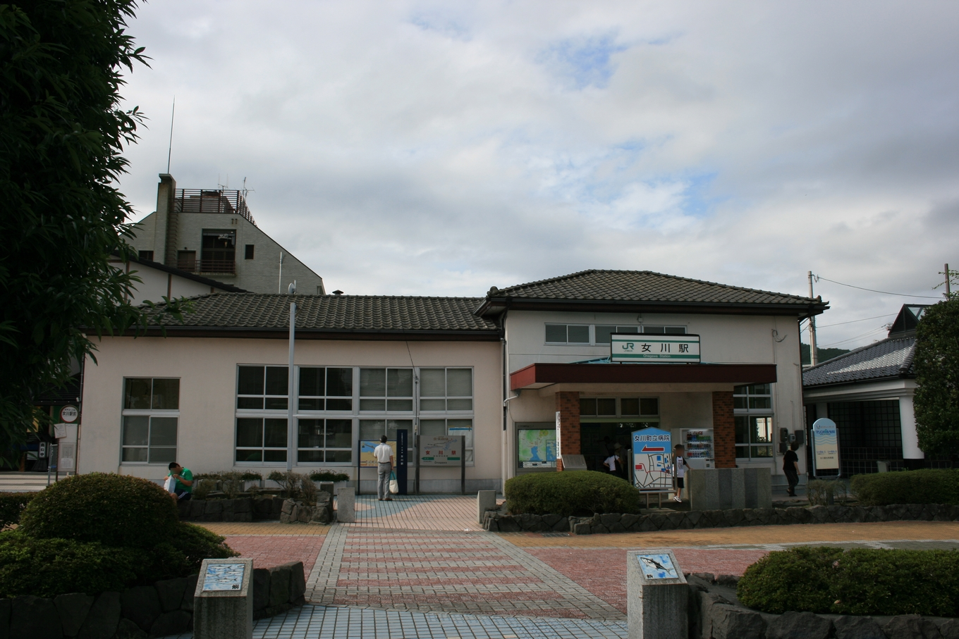 Onagawa Station on Ishinomaki Line, 24 September 2007